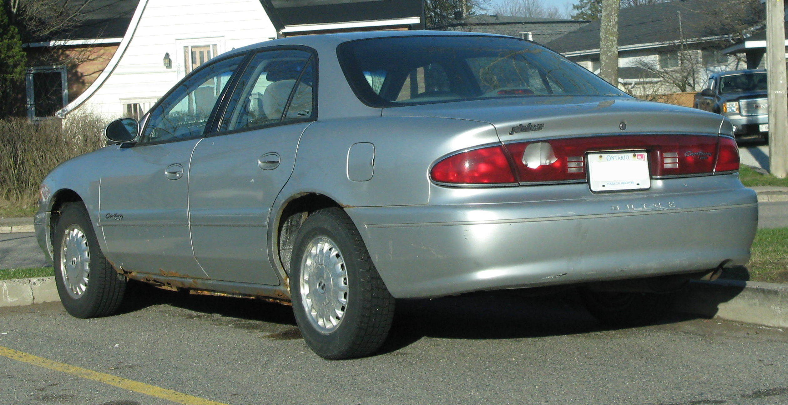 2000 Buick Century Custom photographed in Sault Ste. Marie, Ontario, Canada